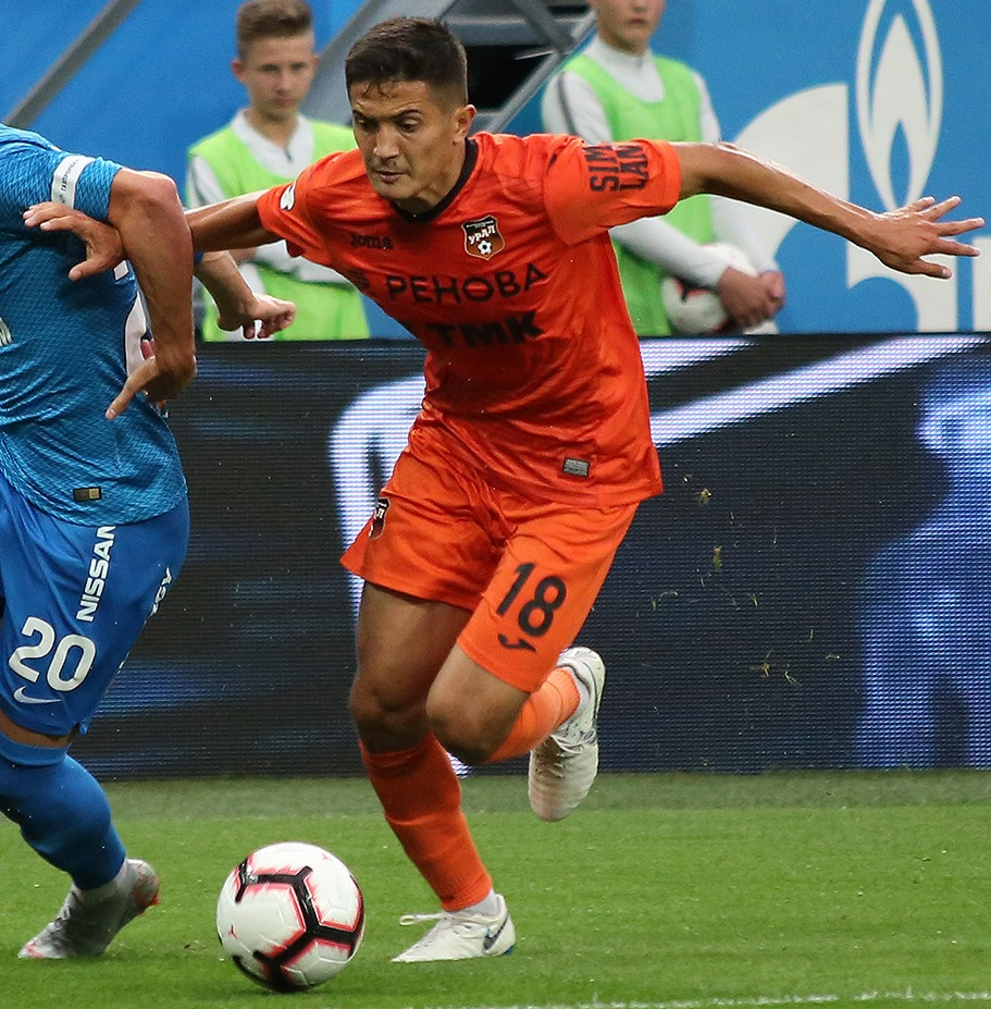 Dzhamaldin Khodzhaniyazov with FC Ural Yekaterinburg in a game against FC Zenit Saint Petersburg.